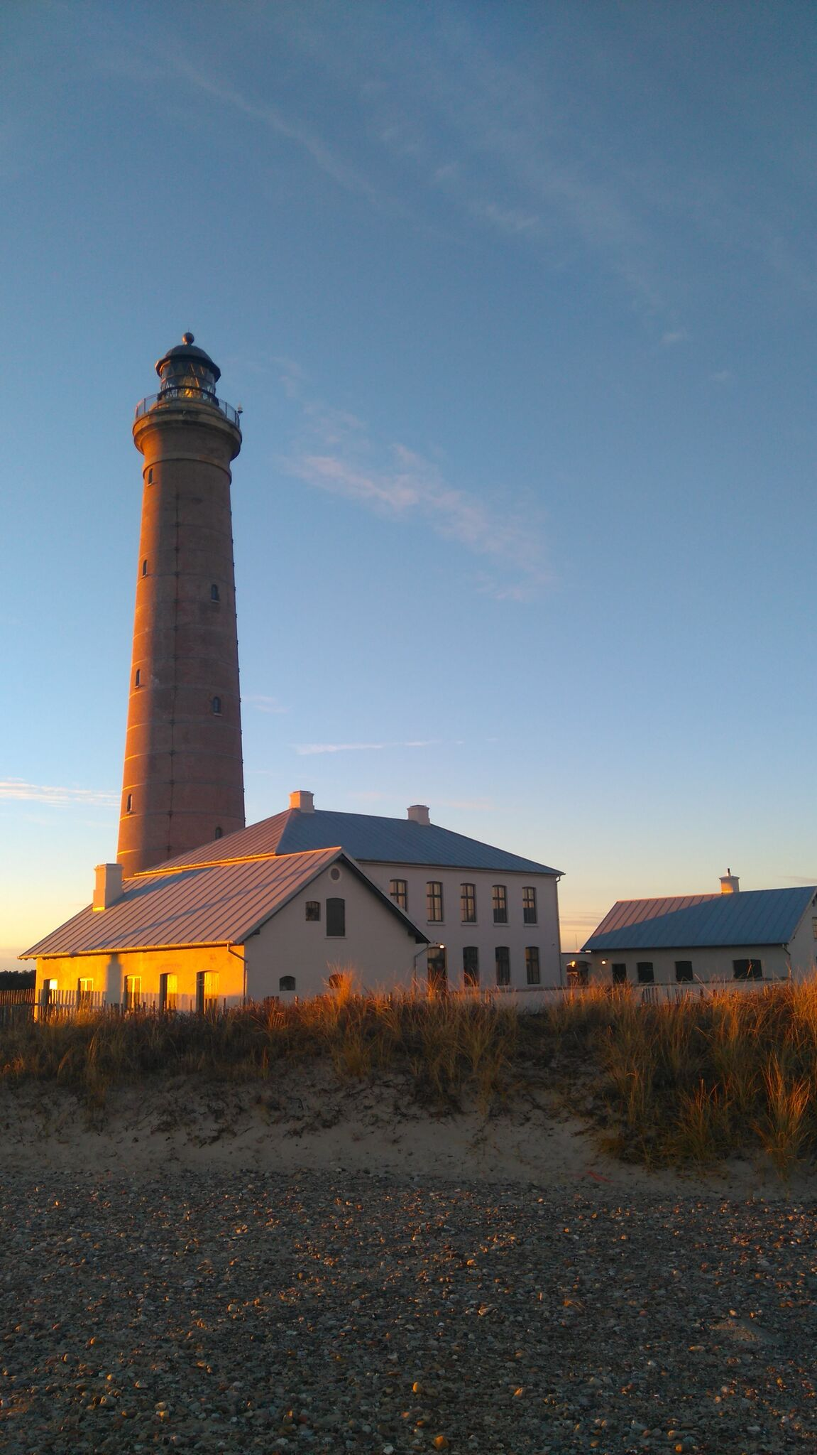 Photograph of Skagen Grey Lighthouse from 2017.